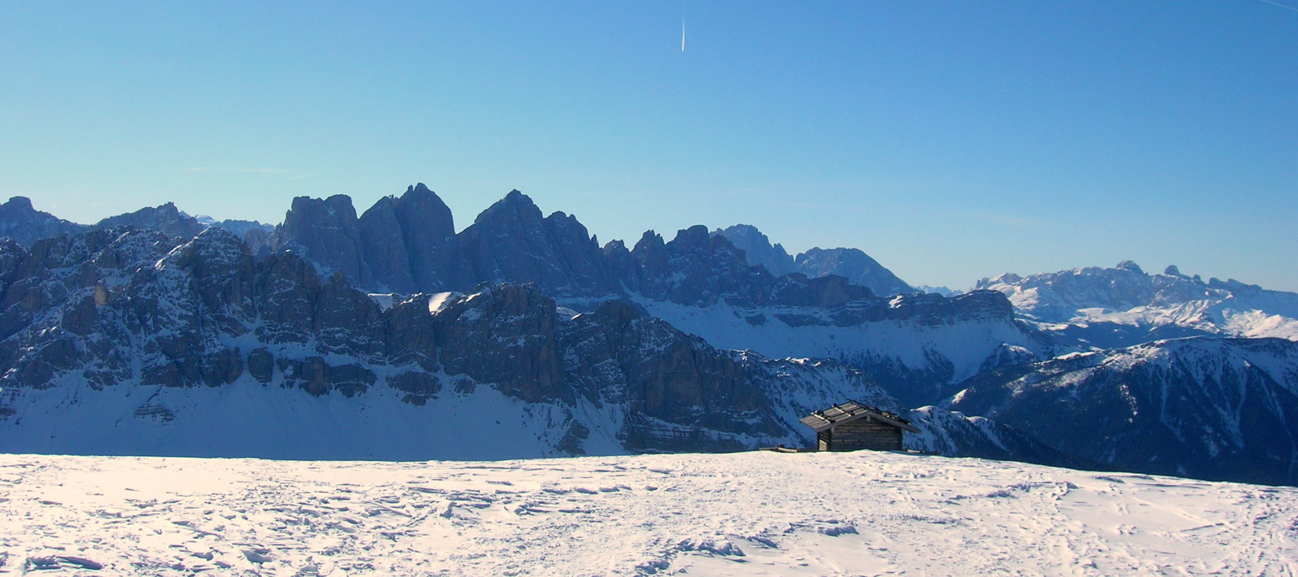 Odle-Geislergruppe from Forca Grande-Großer Gabler